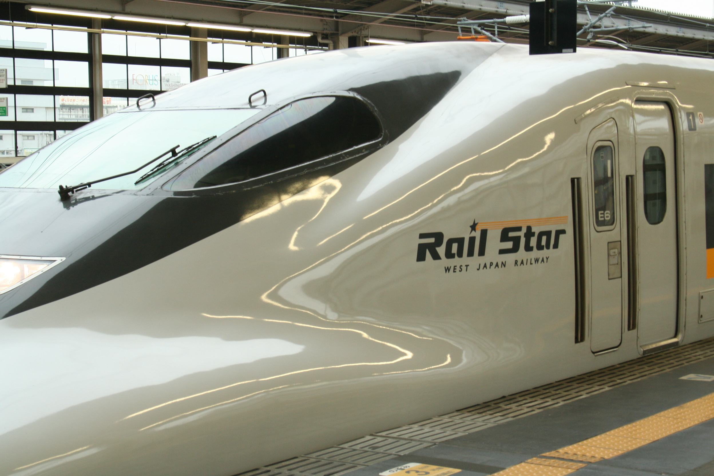 JR West 700-7000 series shinkansen set E6 at Himeji Station